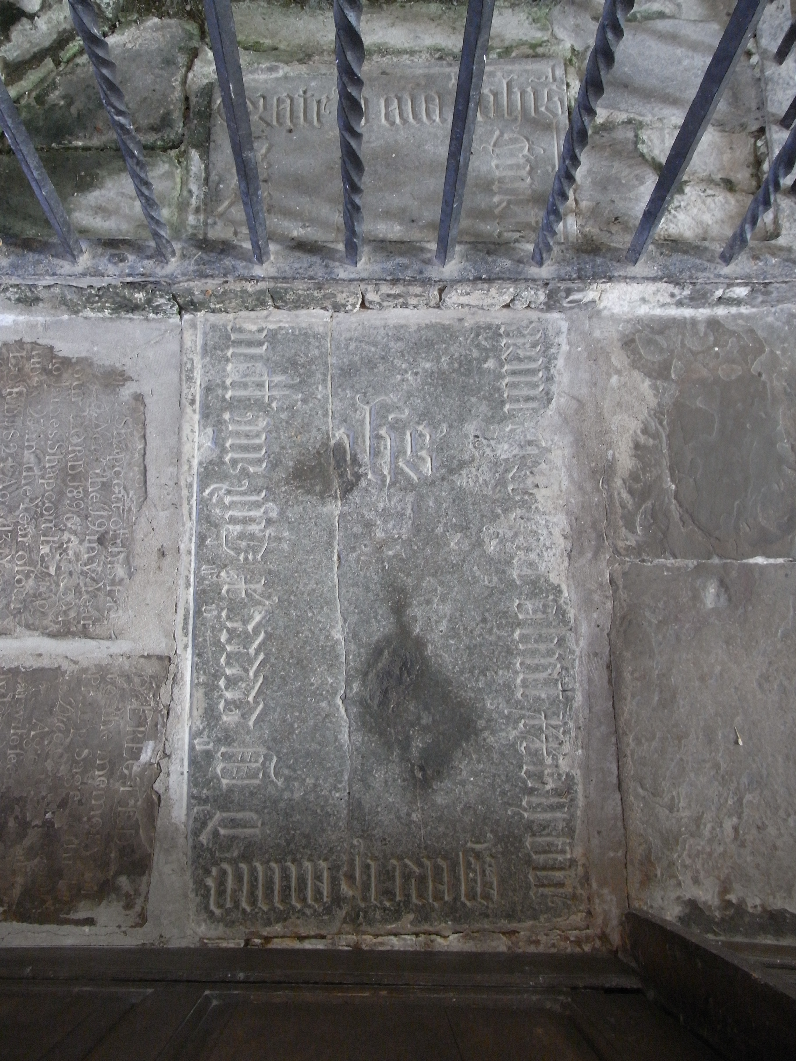 Tombstone of John Courtenay(d.1510) in Molland Church, Devon. Lettering incised in gothic text in a ledger line: Orate p(ro) a(n)i(m)a Joh(anne(s) Courtenay armigeri qui obiit xxvii die Marciii Anno d(omini) mcccccx cui(us) a(n)i(ma)e p(ro)p(i)cietur Deus. ("Pray for the soul of John Courtenay, esquire, who died on the 27th day of March in the year of The Lord 1510 to whose soul may God be favorably inclined"). In the centre of the slab are incised the letters IHS, ("JH(ESU)S")